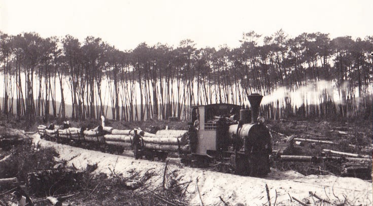 Train on the Caminho de Ferro Florestal das Matas Nacionais, a railway built on the decauville system (600 mm gauge), that served the Pine Forest of Leiria, in Portugal.